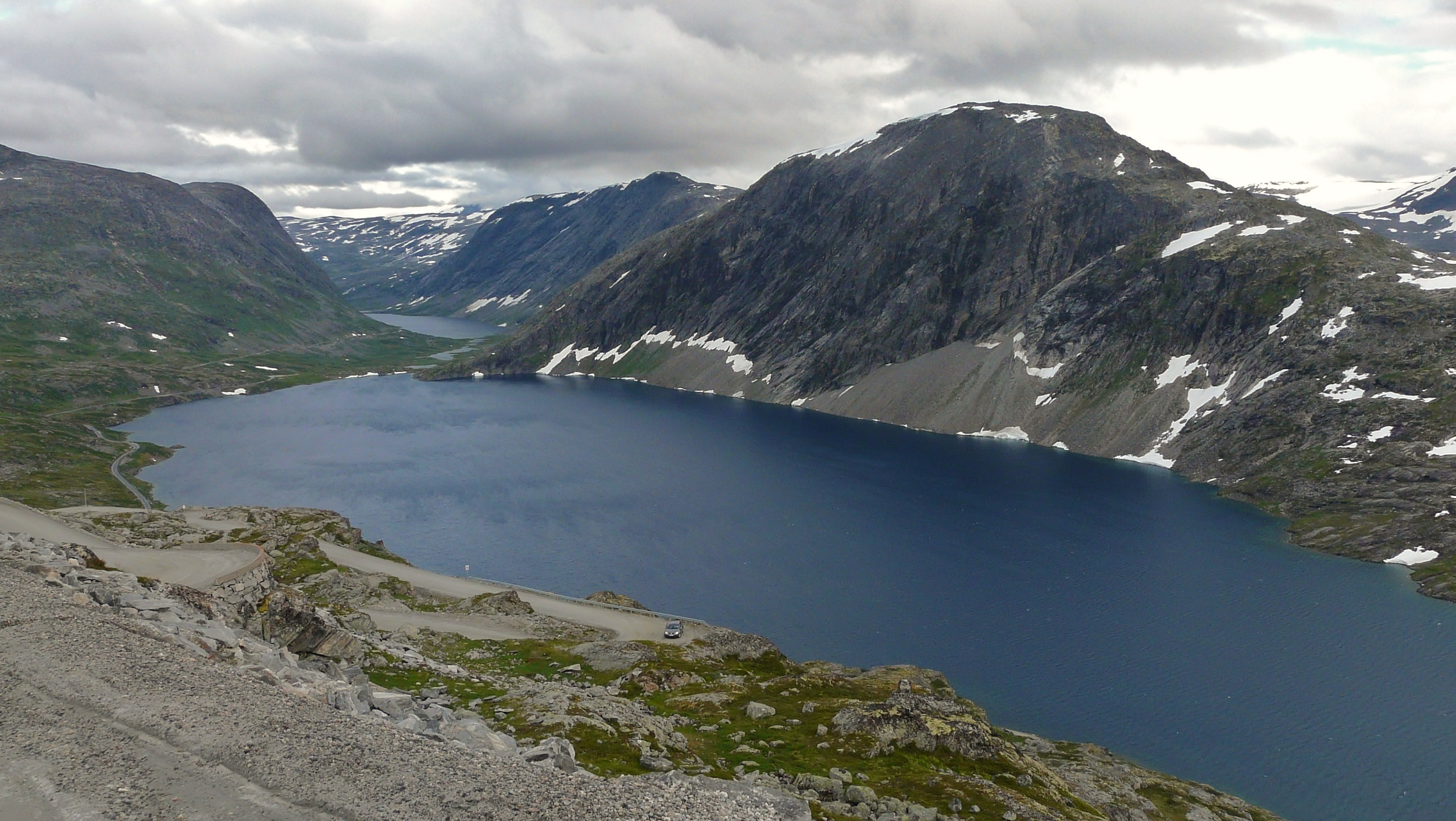 Djupvatnet as seen from the side of Nibbevegen climbing up to Dalsnibba in 2008 August.